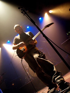 Concert Clermont Ferand